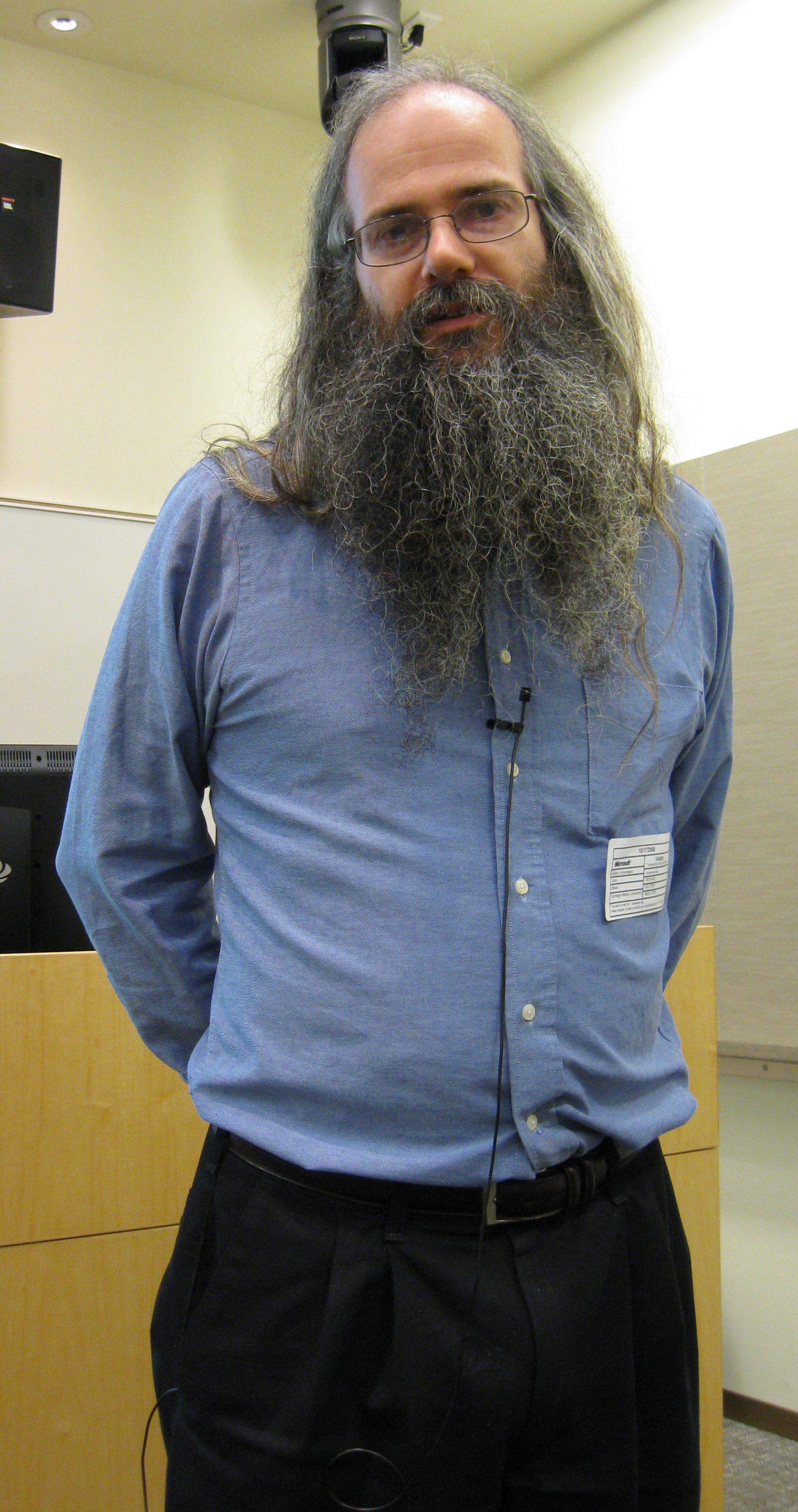 A picture of computer scientist Alan W. Black of Carnegie Mellon University Languages Institute, immediately before a presentation at Microsoft Research in Building 99 Lecture Room B.